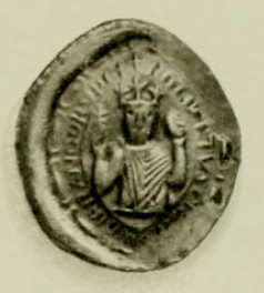 Seal of Robert II of France.